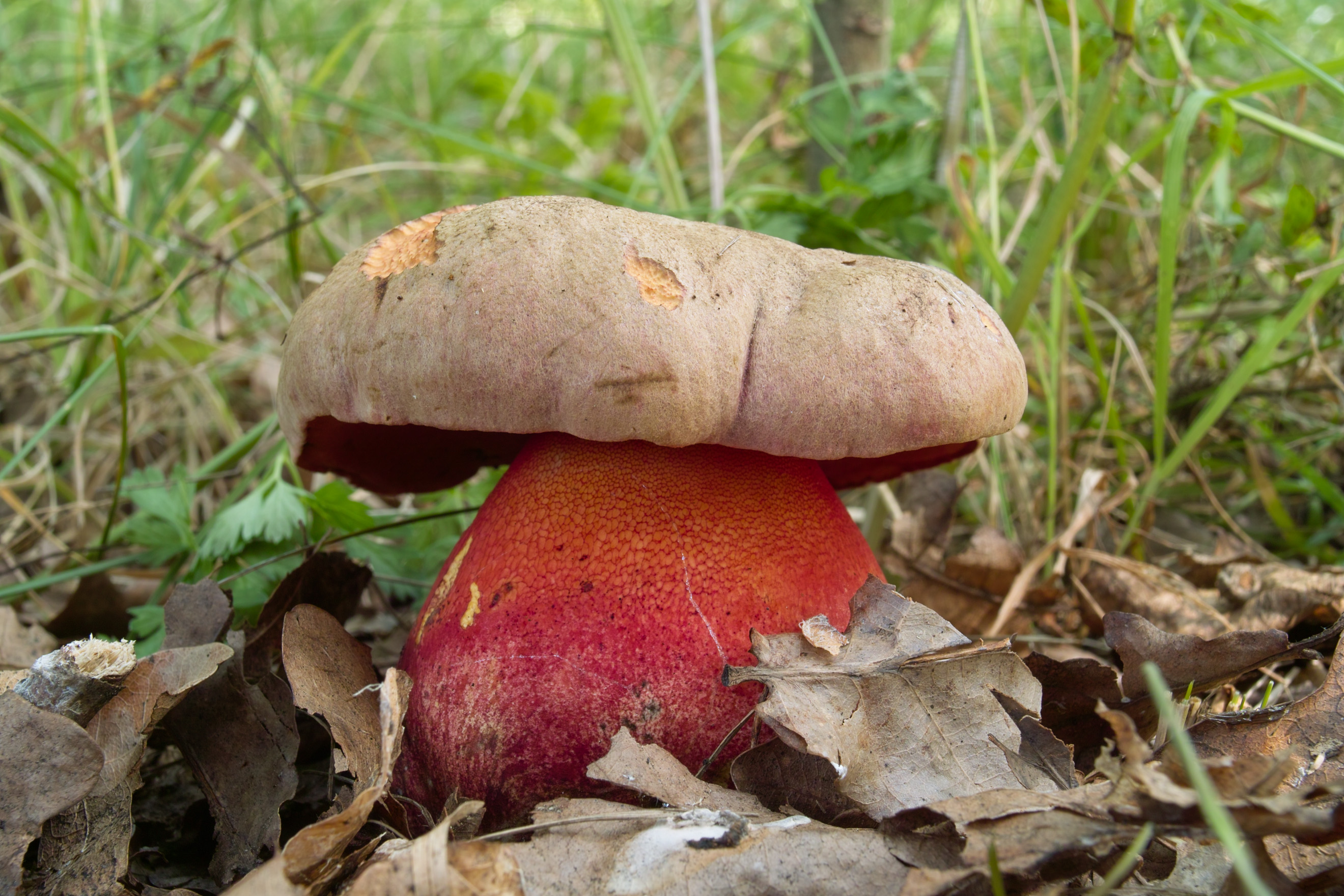 Boletus legaliae, Luční, Czech Republic